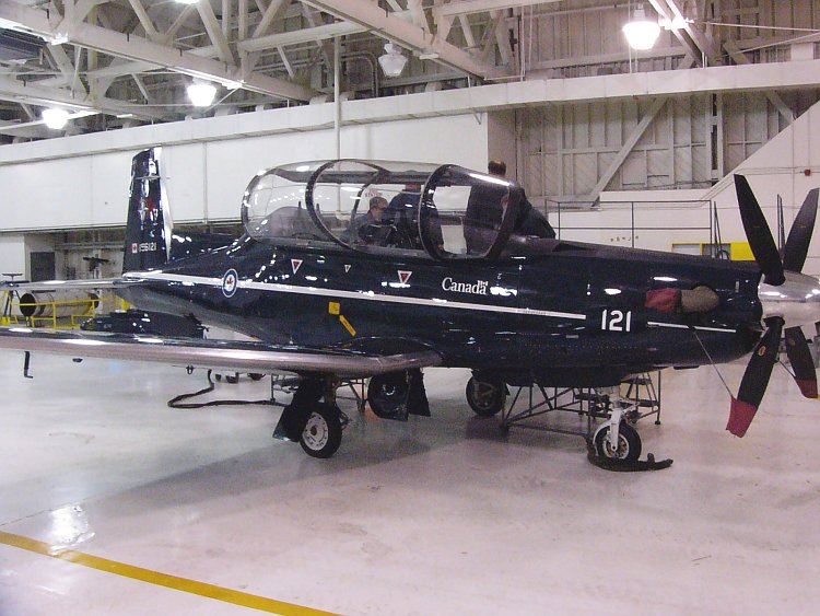 Photo of Raytheon CT156 Harvard II serial number 156121 at CFB Moose Jaw